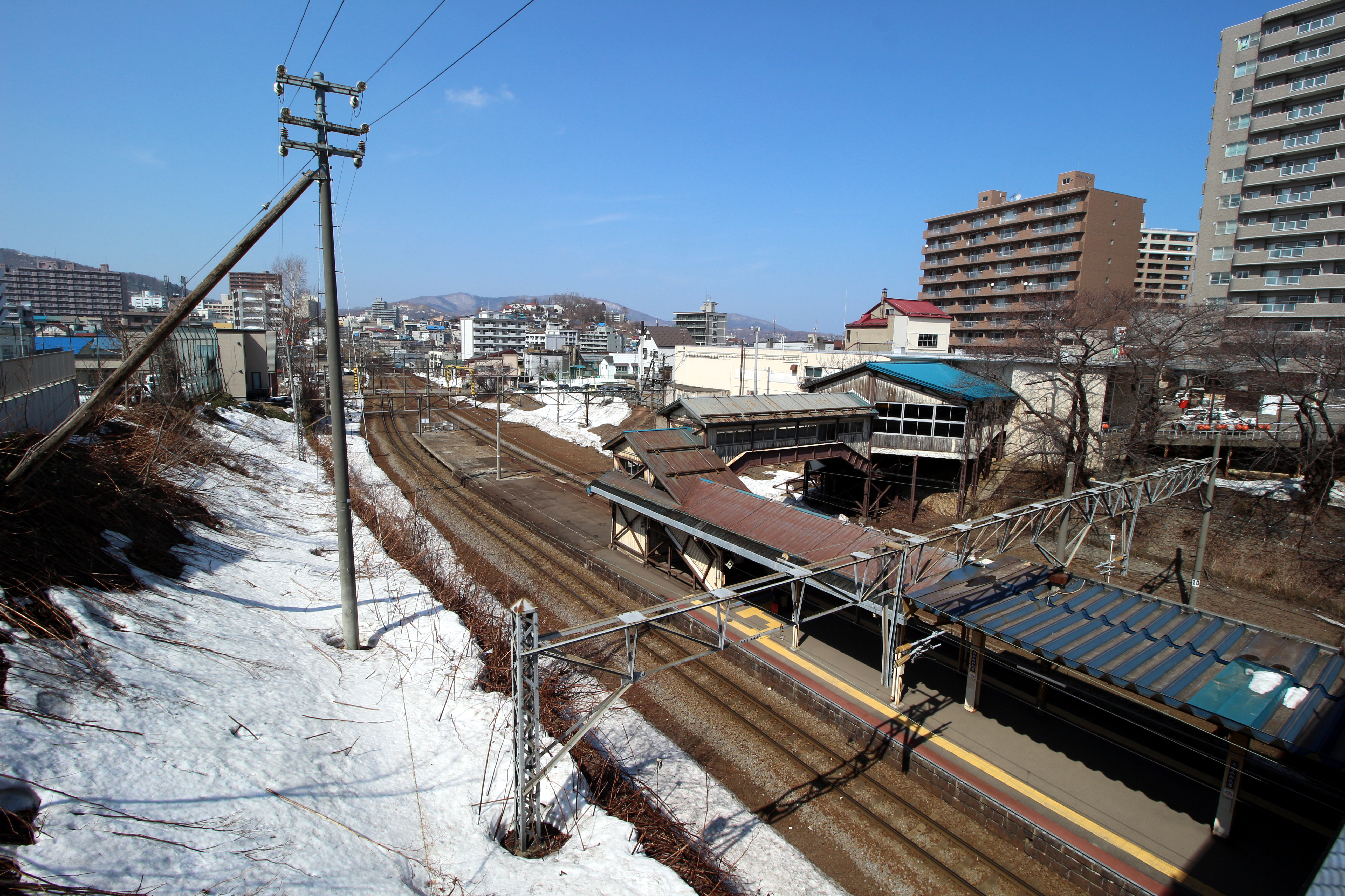 Minami-Otaru Station on the Hakodate Main-Line in April 2018.